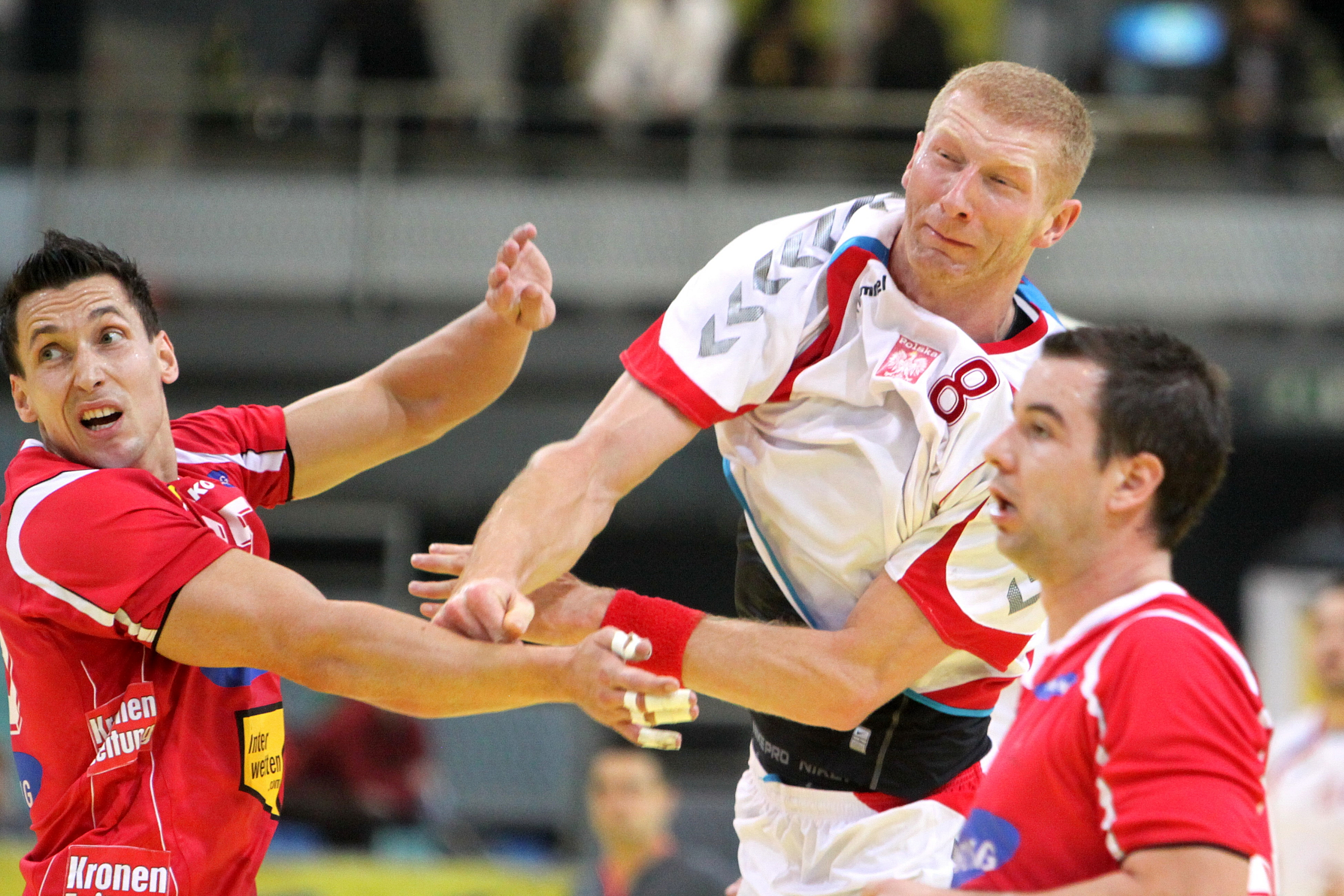 Karol Bielecki (Rhein-Neckar Löwen), Poland national handball team, left Mare Hojc, right Michael Knauth, Austria national handball team